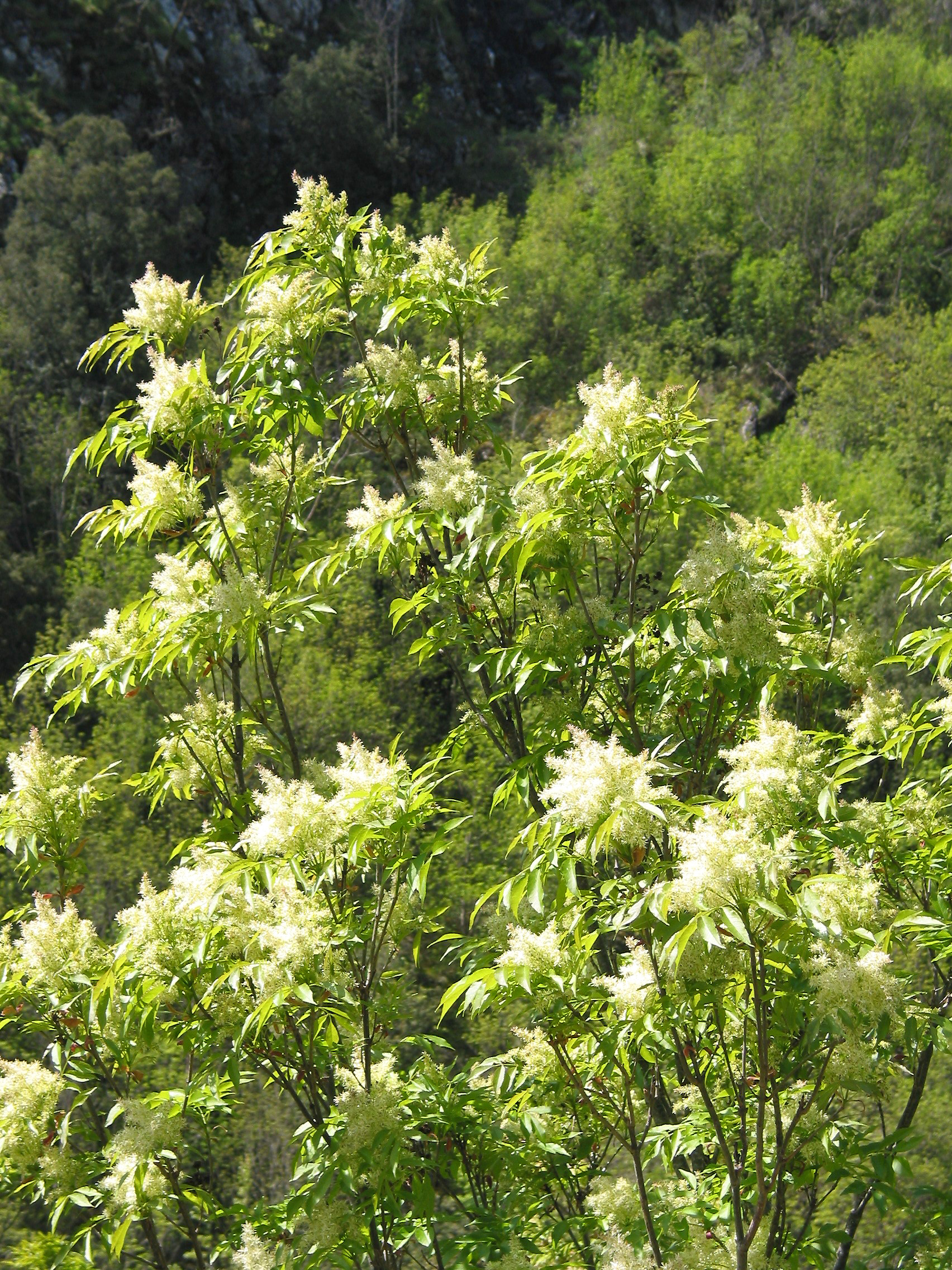 Flowering Ash (Fraxinus ornus) - Habit: Prunelli ravine ( Corse-du-Sud) - France. Corsu: Frassu à fiore (Fraxinus ornus) - Borga da Prunelli ( Corsica sutanna) - Francia. Walon: Frin.ne a fleûrs (Fraxinus ornus) - Place: Gwadjes do Prunelli (Corse-do-Sud) - France.